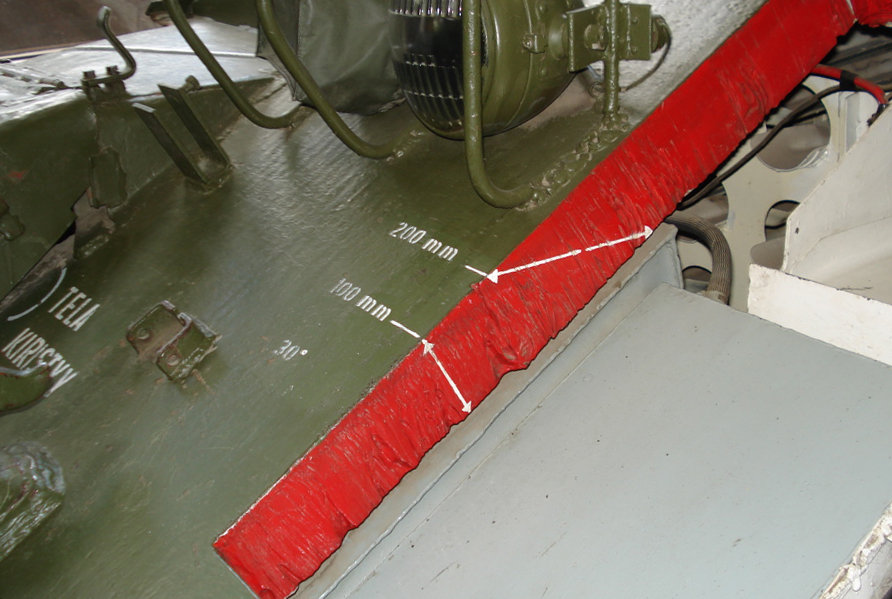 Russian T-54 tank, used by Finland. This model was cut open in for training purposes. Various systems of the tank have been illustrated with different colors. This view shows the front armour, partly cut away to illustrate its thickness. Finnish Tank Museum (Panssarimuseo) in Parola. Photo taken on July 14, 2006. Source: Photo by me, User:Balcer.